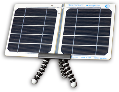 The sCharger-5 is a 5 Watt , 5 Volt portable solar charger created by CEO of Suntactics, Dean Sala.